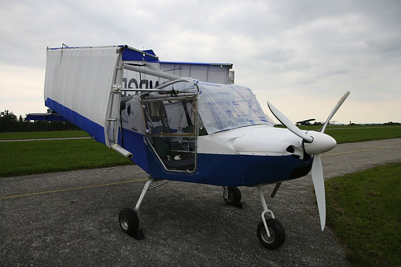 Skyranger - Wing folding option